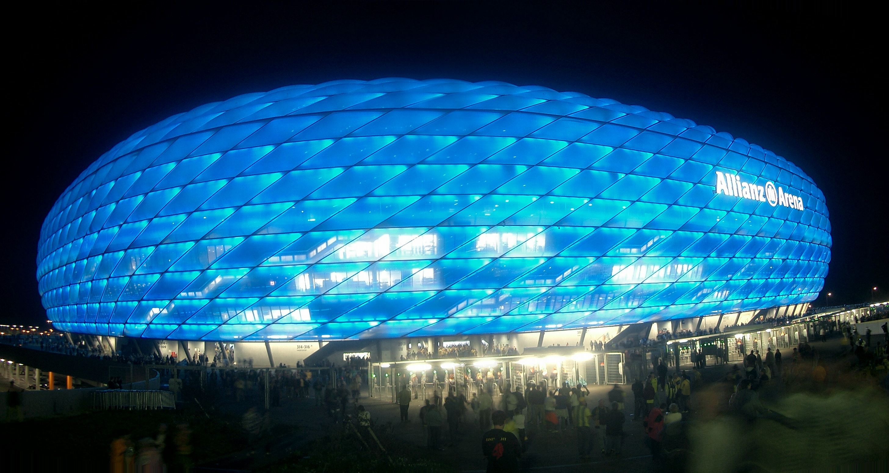 Allianz Arena in Munich, Germany